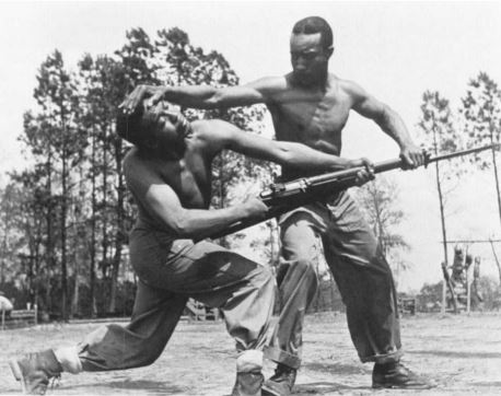 Cpl Arvin L. "Tony" Ghazlo was a trainer in jujit-su prior to WWII. His skills were utilized in training fellow African Americans in unarmed combat at Marine Corps Base Montford Point.